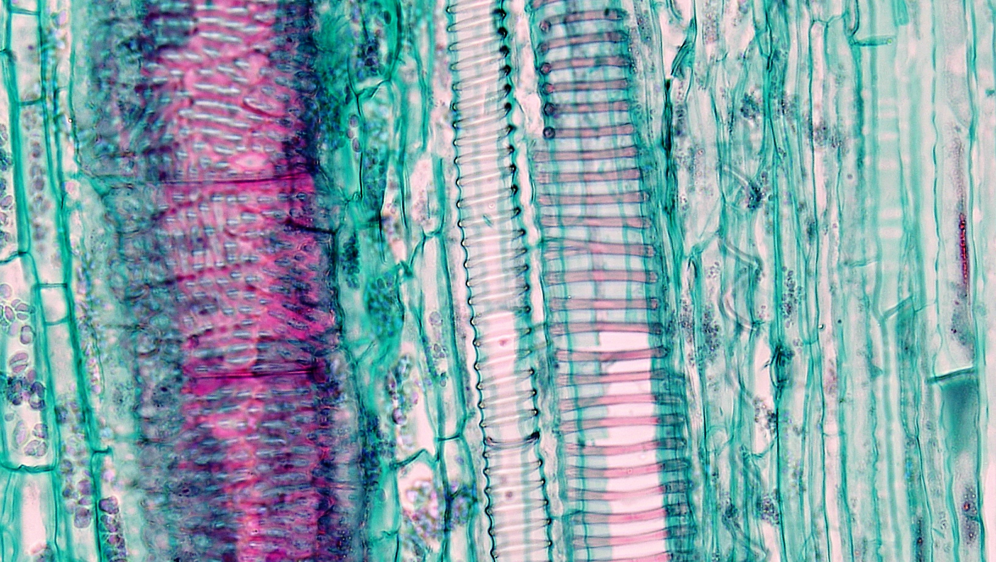 long section: Cucurbita stem common name: Pumpkin/Squash magnification: 400x The vascular bundles are bicollateral; the central xylem is bound by an inner and outer cambium, and topped by a larger outer and a smaller inner phloem. Phloem consists of large clear sieve tubes with pitted cell walls and sieve plates, phloem parenchyma and small narrow green stained companion cells. Many sieve plates have deposits of a mucoid p-protein that forms as part of the trauma response in injured phloem. Xylem is well developed with numerous protoxylem evident towards the inside, and very large metaxylem to the outside of the bundles. Xylem consist primarily of large vessels and xylem parenchyma; tracheids and fibers are rare. Walls of xylem vessels have lignin free pits and lignin thickenings that form rings, spirals, networks and solid blocks. The vascular bundles are separated by zones of internal parenchyma. The sequence of tissues in the bicollateral vascular bundle is large outer phloem, outer cambium, xylem, inner cambium and smaller inner phloem.